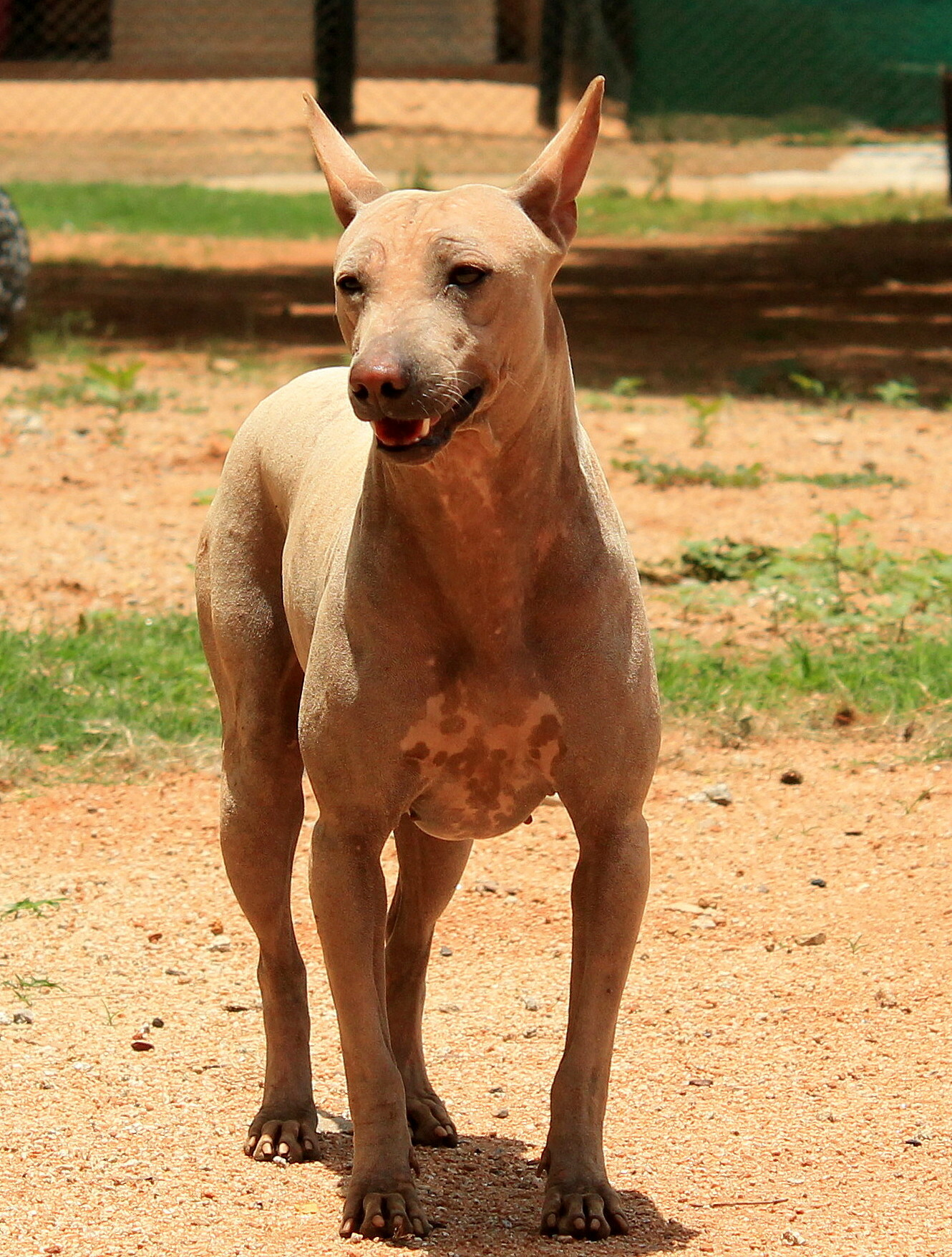 Jonangi full worked out